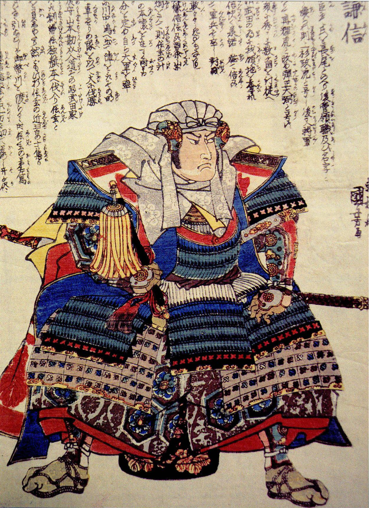 A fierce depiction of Uesugi Kenshin seated, originally printed in the book Stories of 100 Heroes of High Renown